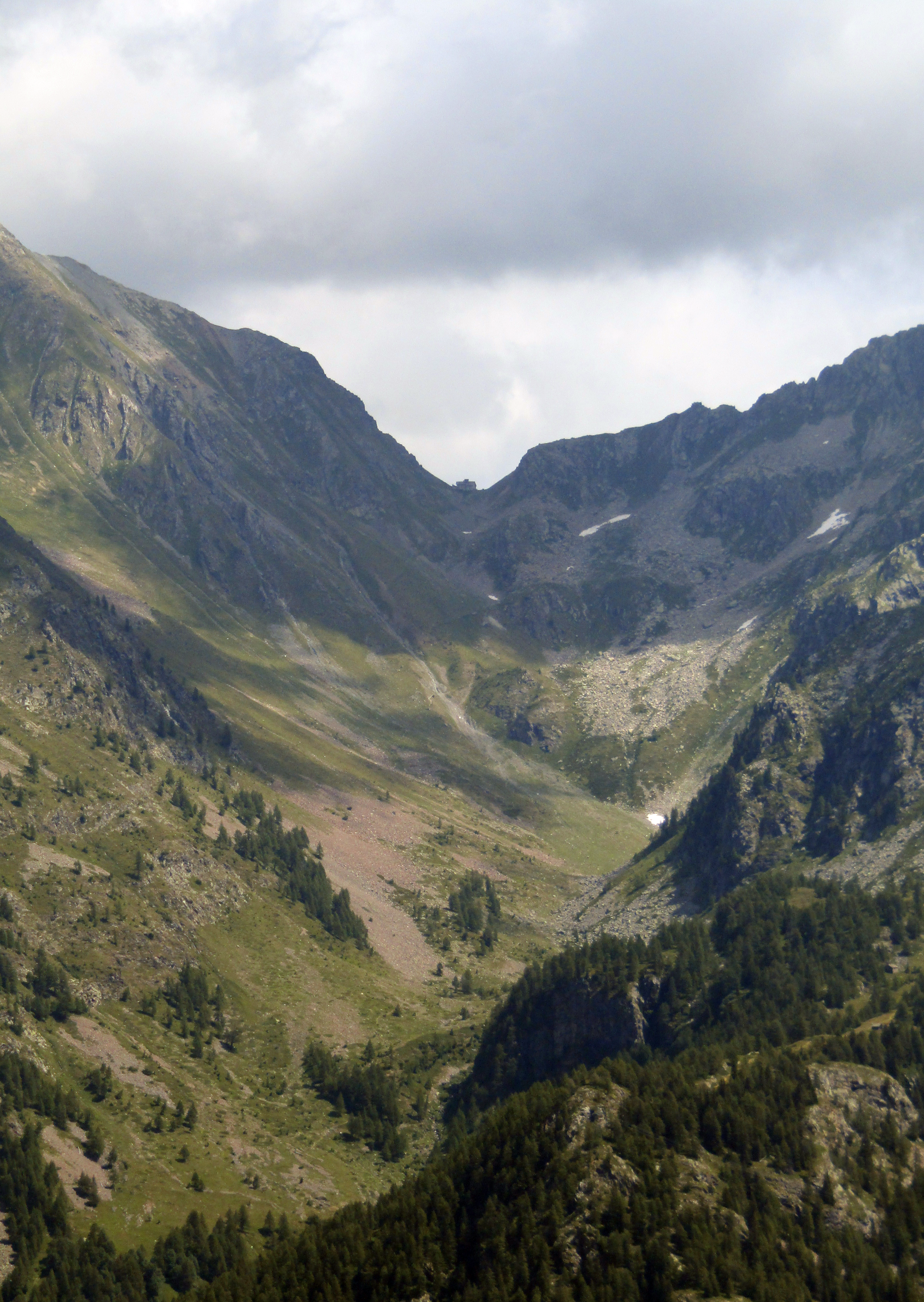 Colle di Valdobbia as seen from Colle Ranzola